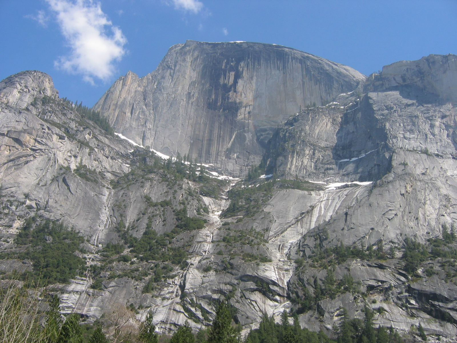 Description : Half Dome, seen from Tenaya Canyon ; Yosemite National Park, California, USA. Author : Urban ; I took this picture on April 2006.